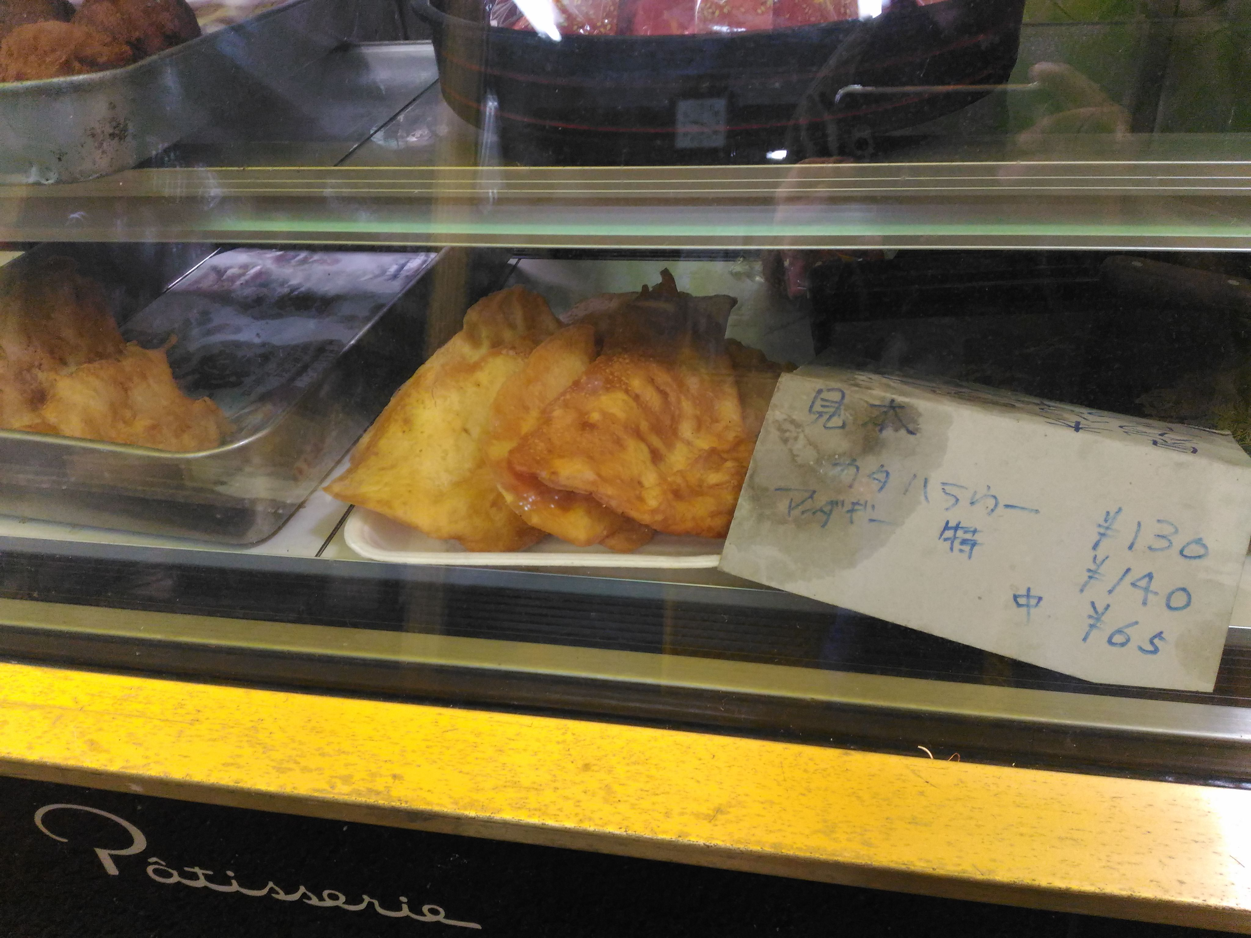 Kataharanbu; Okinawa's matrimonial snack for good fortune.